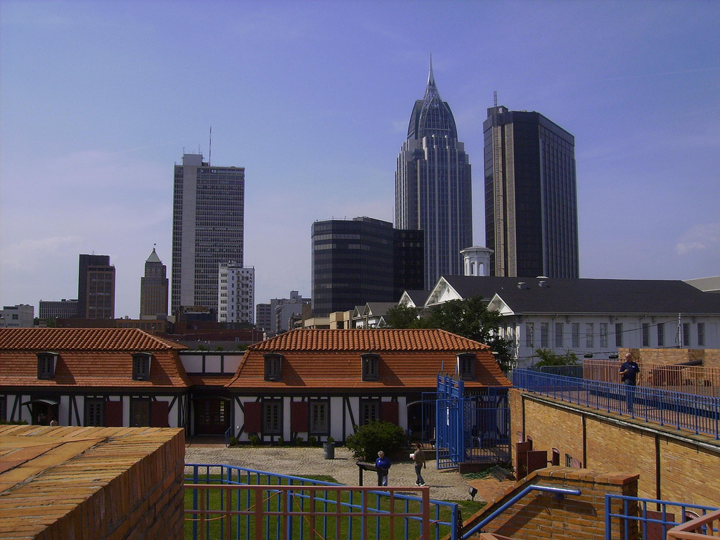 The Mobile city skyline taken from Fort Conde. Actually, it's a 4/5 size reconstruction of only 1/3 of the original fort, built in 1976. The actual fort was torn down and sold off. Mobile was founded in 1702 (me thinks) and construction on the fort began in 1707(?). I have a hard time remembering dates. Much like Mobile, the fort had been under the control of several nations: France, Spain, England, and the US. The skyline looks impressive, but those are the only tall buildings in the city. It really isn't that big of a city. The bay is to the right.